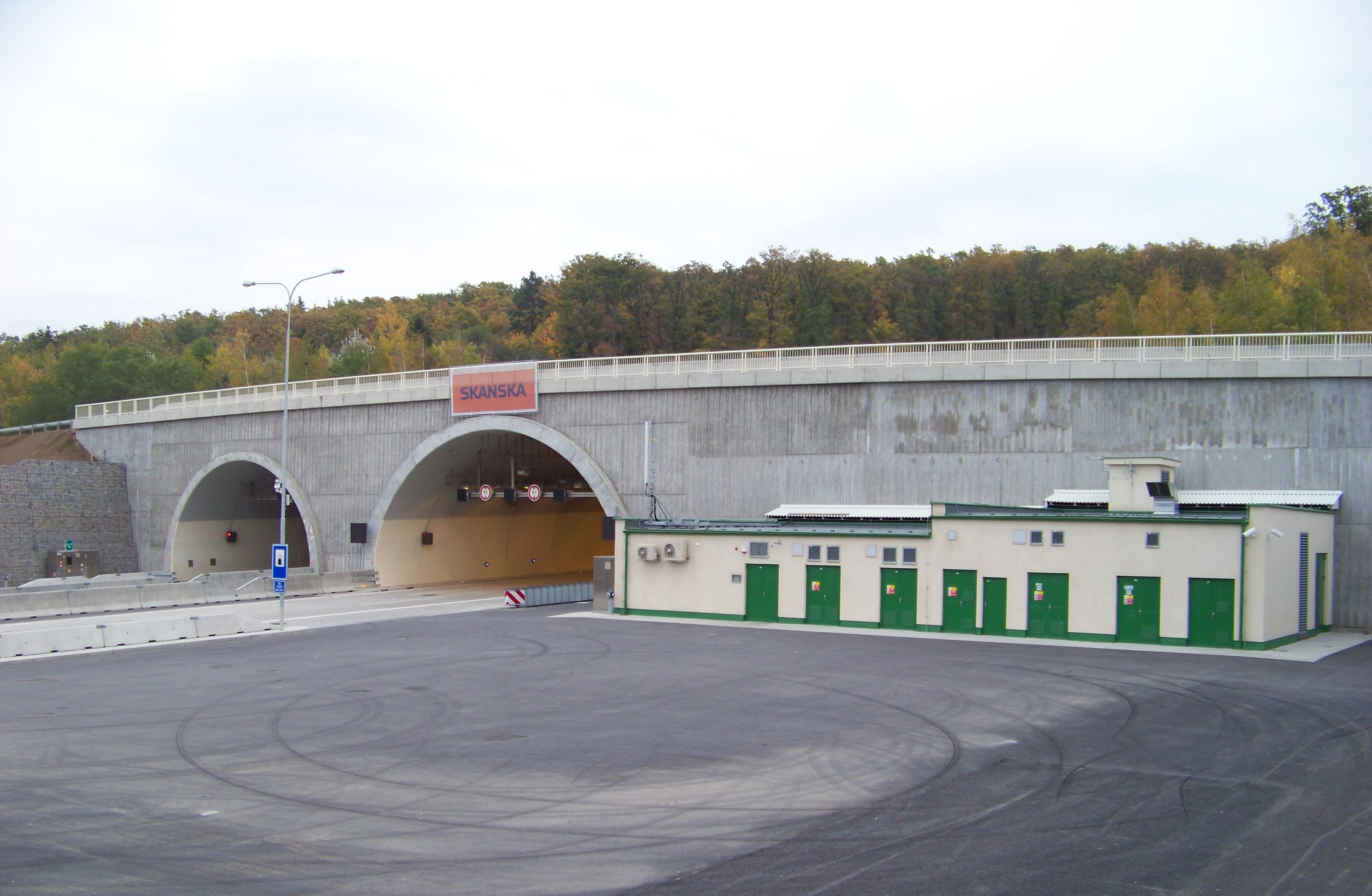 Prague-Komořany, the Czech Republic, Komořany Tunnel on the Expressway R1.